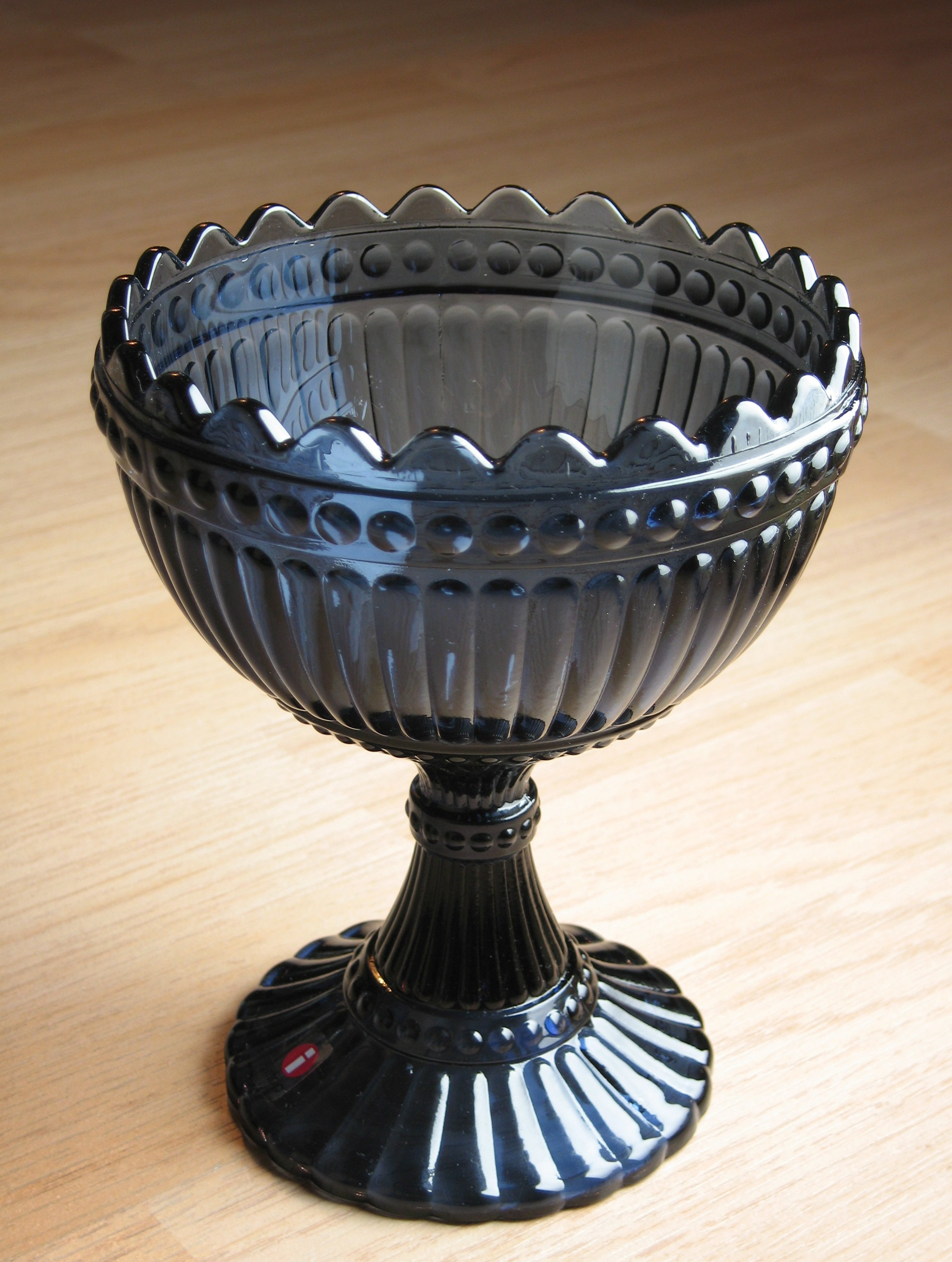 Mariskooli -- a famous glass bowl sold by Marimekko/Iittala in Finland. While the name "Mariskooli" is a trademark, the manufacturer does not hold any exclusive industrial rights to the design.